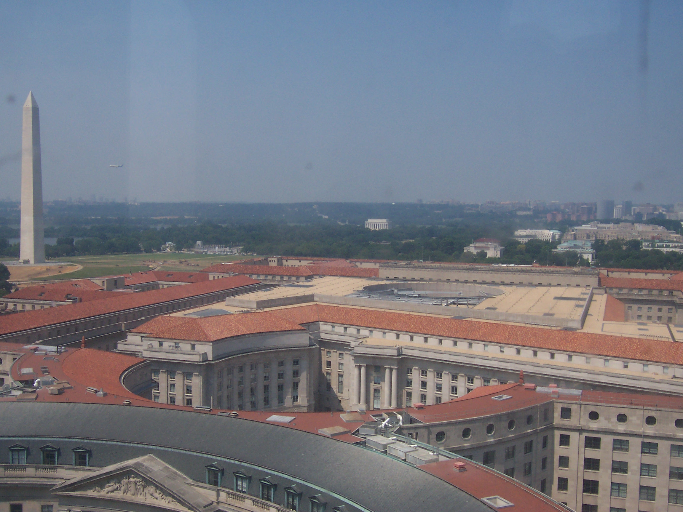 Washington Monument in background, Federal Triangle, Washington D.C.. Ariel Rios Building in foreground. Kennan Institute and Ronald Reagan Building, middle of the image.